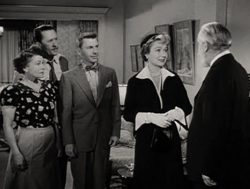 L. to R. : Thelma Ritter, Allyn Joslyn, David Wayne, Constance Bennett & Monty Woolley in As Young as You Feel - trailer (cropped screenshot)